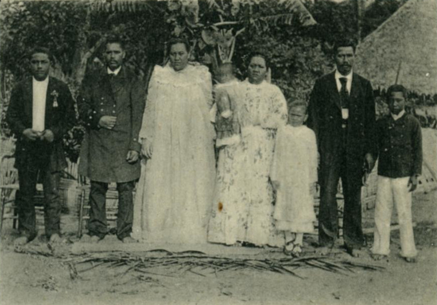 The Royal Family at Avera. In the image on the right, the Queen of Avera and her family. In the center, the Queen, Tuarii, dressed in a "mission" dress. On the right, a woman carrying a baby, a girl in a dress, stockings and shoes, a man in a suit, and a young boy in a dark jacket and white pants. It is probably the Queen's sister and her family. On the left, the Queen's husband dressed in a long jacket and pants, and a third man in a suit. It could be the king of Maiao Island. Behind them, you can see chairs, a barrier of woven bamboo canes and, in the background, on the right, you can see the vegetable roof in pandanus or "nī'au" (coconut palms) of a traditional construction, identified as the “fare tūtu” (cooking).